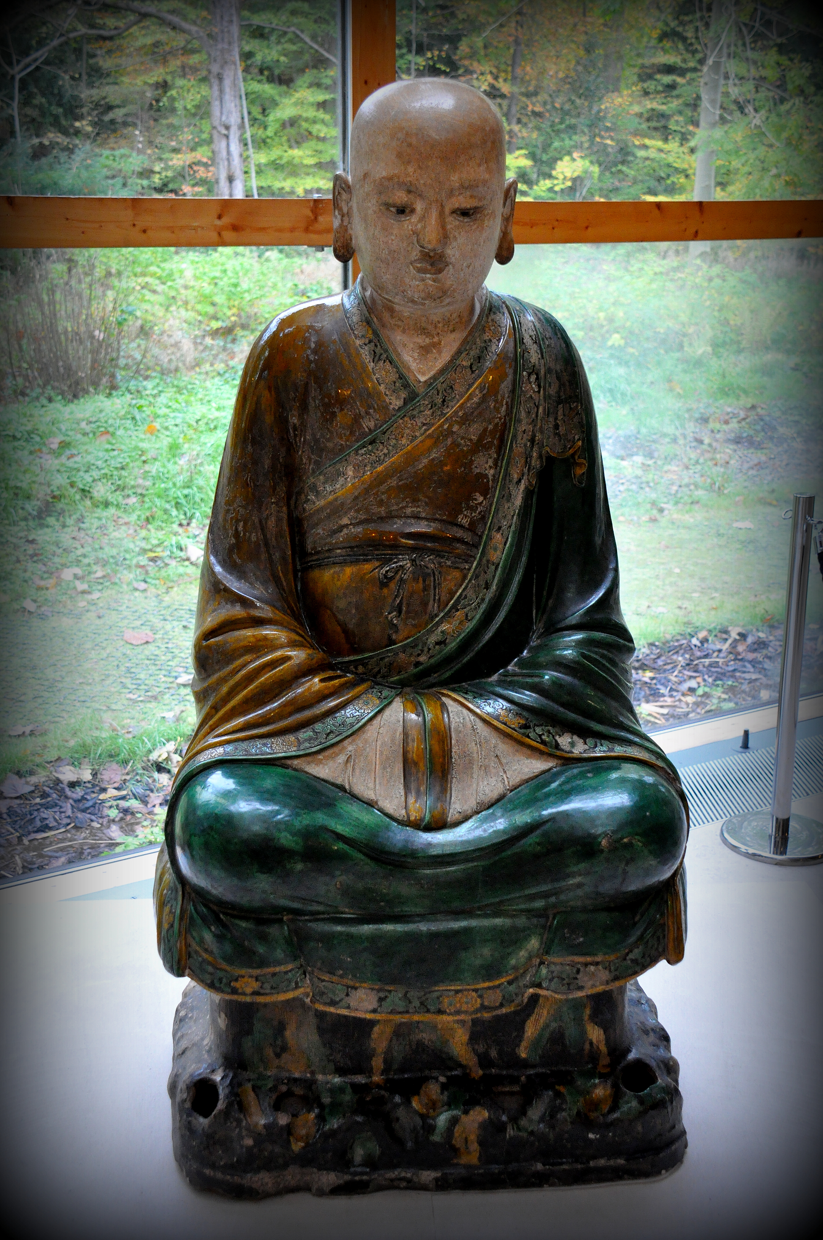 A statue of a Luohan; stoneware decorated with enamels. Ming dynasty, Chenghua period 1465-1487 CE; made in 1484 CE bu Liu Zhen. The Burrell Collection, Glasgow, Scotland, UK.